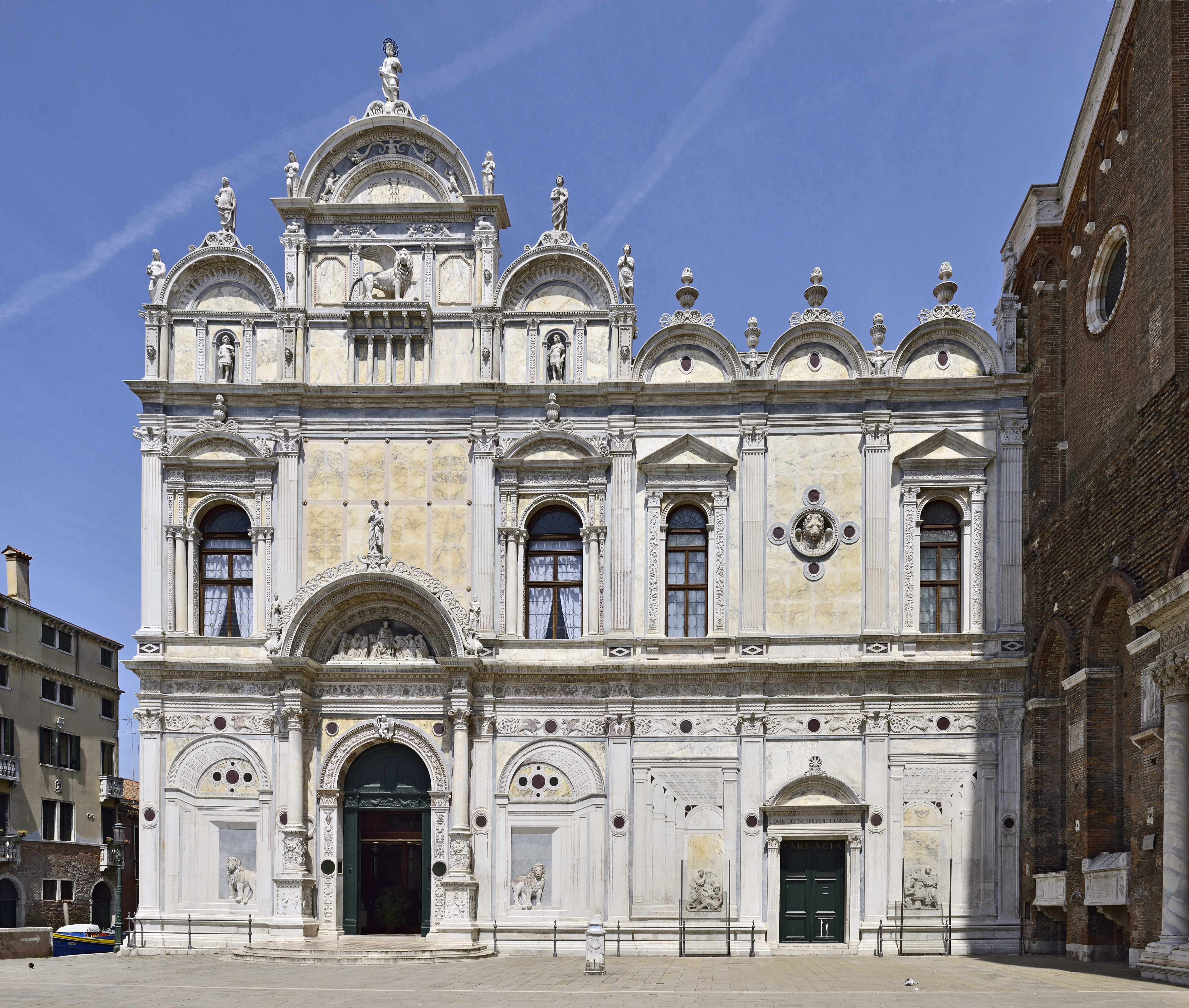 Main facade of the Scuola Grande di San Marco, presently the general hospital of Venice.